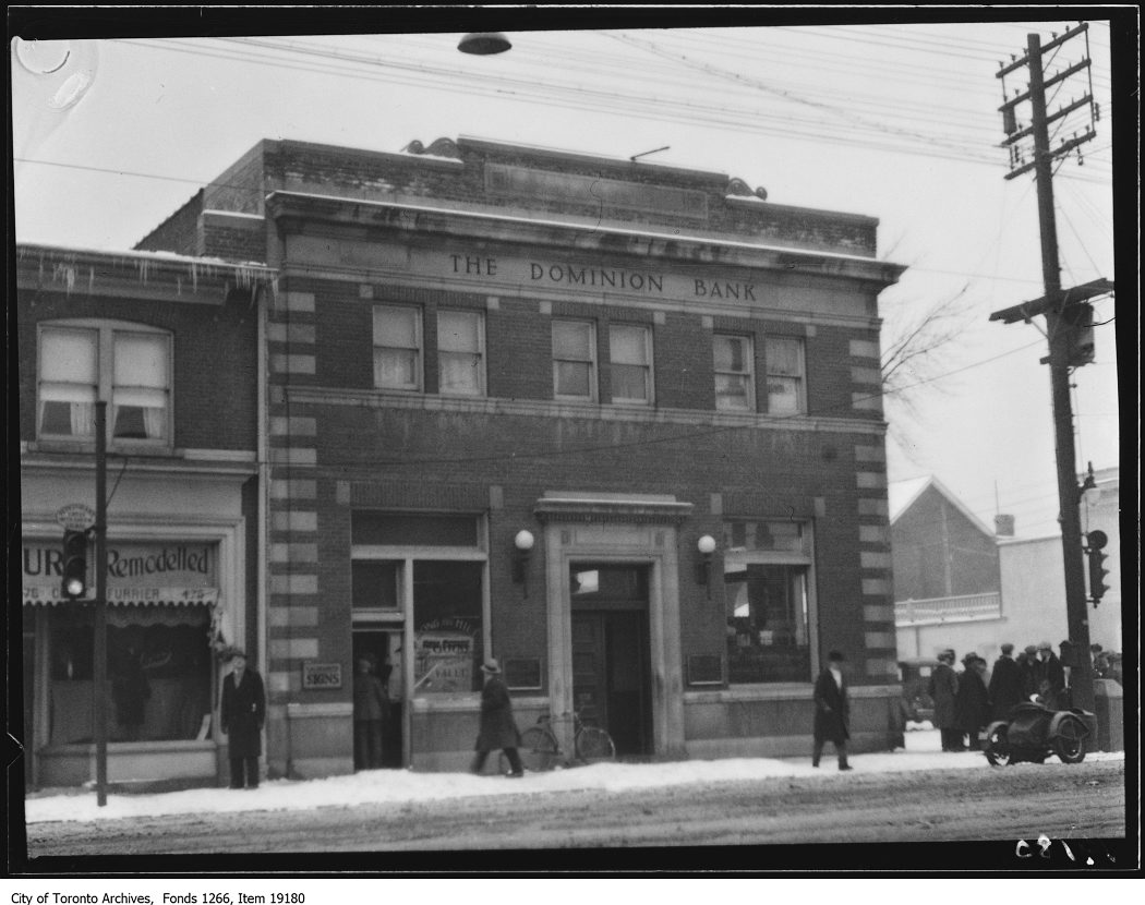 Photographer: John Boyd February 4, 1930 City of Toronto Archives Fonds 1266, Item 19180 This image is available from the City of Toronto Archives. This tag does not indicate the copyright status of the attached work. A normal copyright tag is still required. See Commons:Licensing for more information.